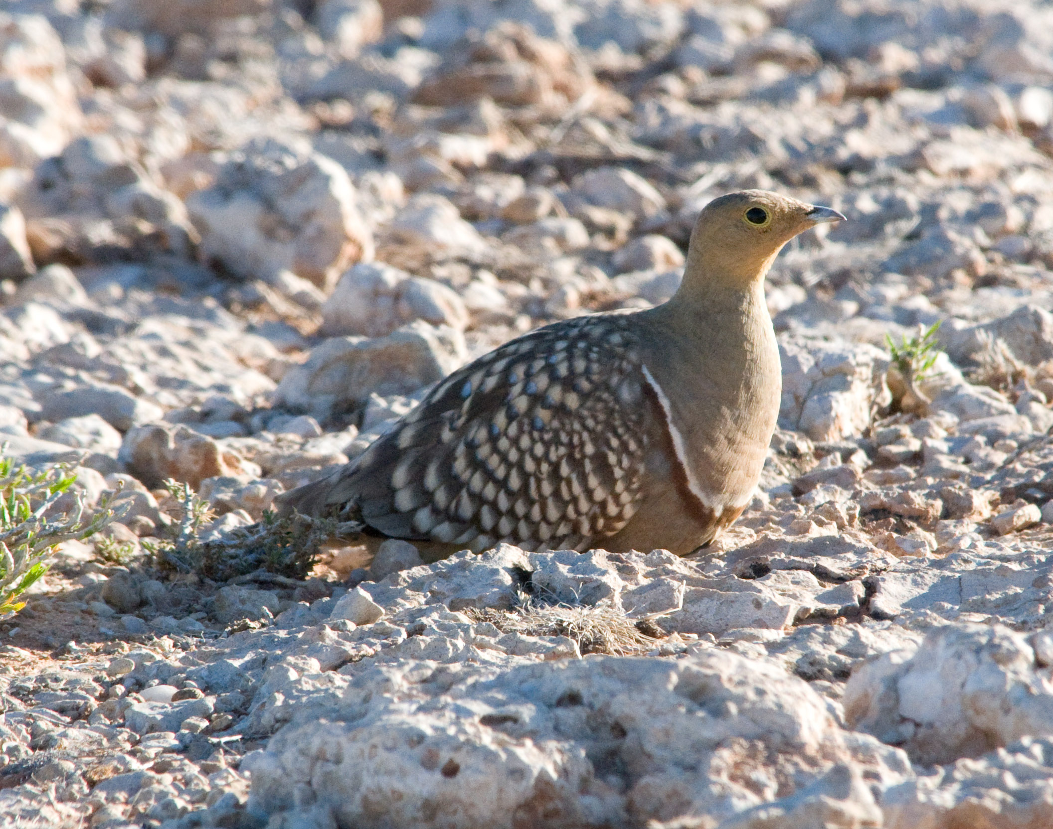 A male Namaqua Sandgrouse (Pterocles namaqua) in Kalahari, South Africa.